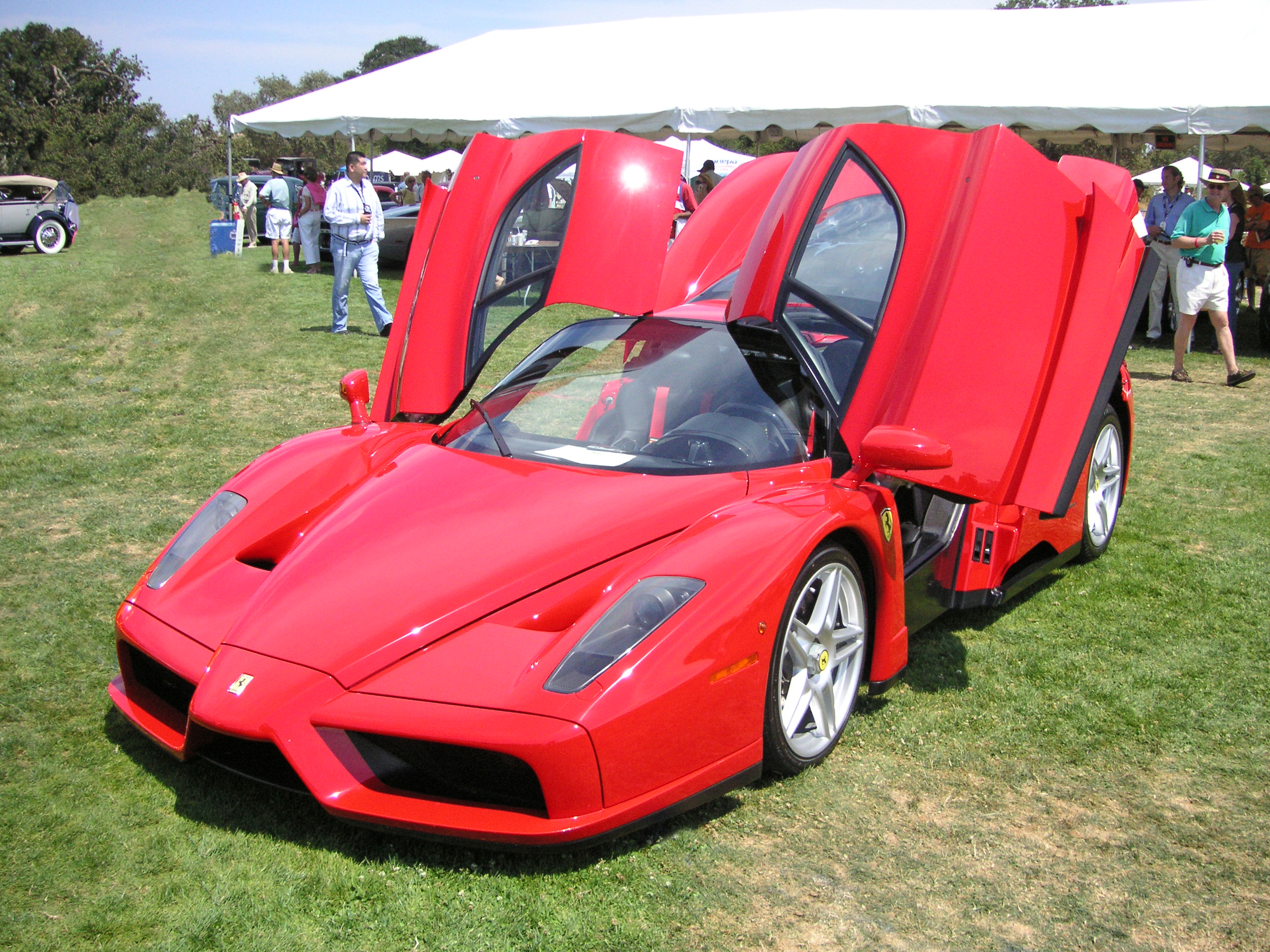 A Ferrari Enzo, doors open. Taken at the 29th annual Palo Alto Concours d'Elegance at Stanford.